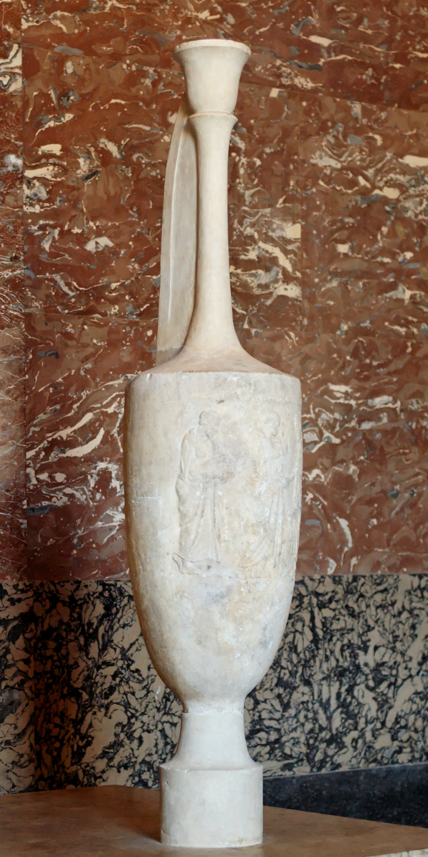 Marble funerary lekythos. Pentelic marble, ca. 400 BC, found between Athens and the Cape of Sounion.